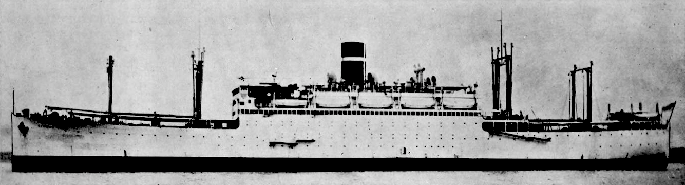 SS Western World, launched 17 September 1921, and on delivery 9 May 1922 the last ship of the Emergency Fleet Corporation/United States Shipping Board World War I shipbuilding program.